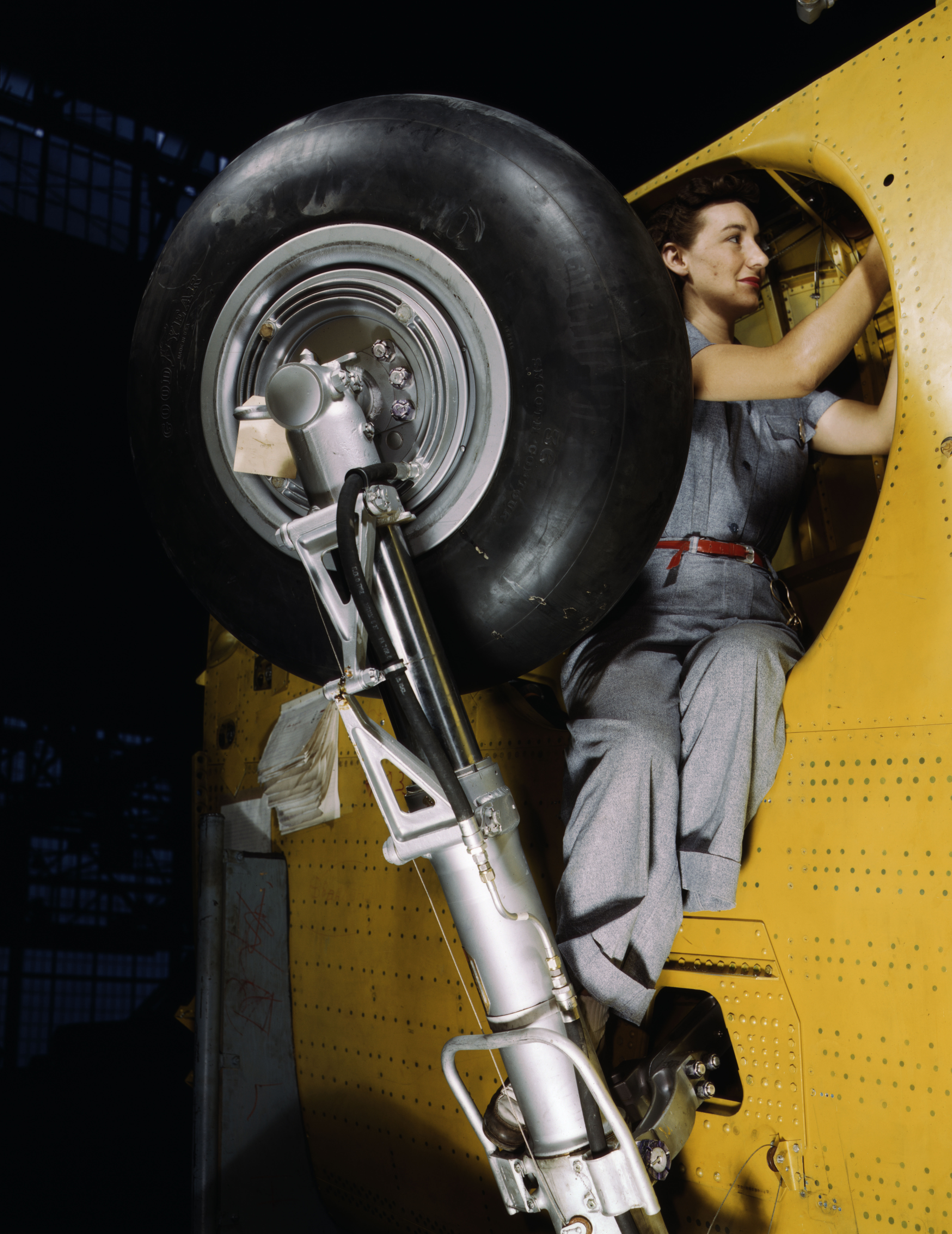 This woman worker at the Vultee-Nashville is shown making final adjustments in the wheel well of an inner wing before the installation of the landing gear, Nashville, Tenn. This is one of the numerous assembly operations in connection with the mass production of Vultee "Vengeance" dive bombers.